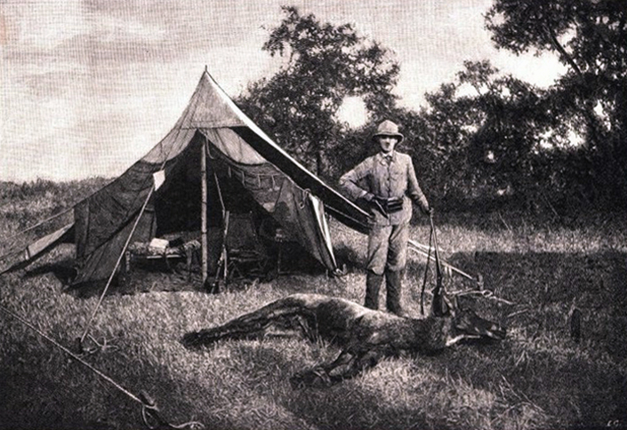 book